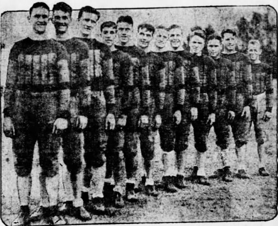 Florida Gators backfield. Left to right: Goof Bowyer, Tommy Owens, Rainey Cawthon, Clyde Crabtree, Royce Goodbread, Carl Brumbaugh, Red Bethea, Wilbur James, Red McEwan, John Allen, Ed Sauls, and Broward McClellan.